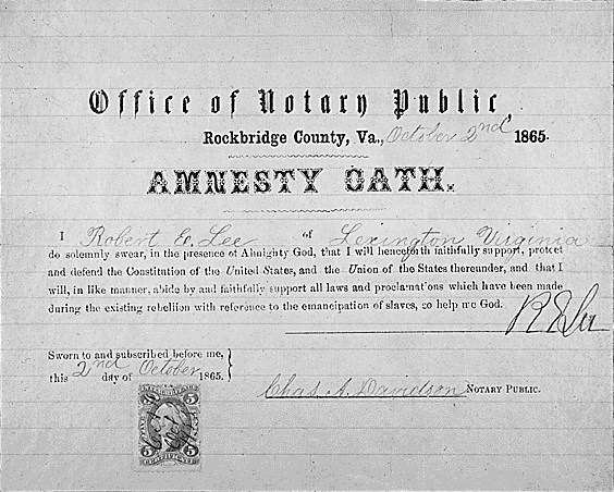 After Robert E. Lee surrendered his troops in April 1865, he promoted reconciliation. This statement reaffirmed his loyalty to the U.S. Constitution.